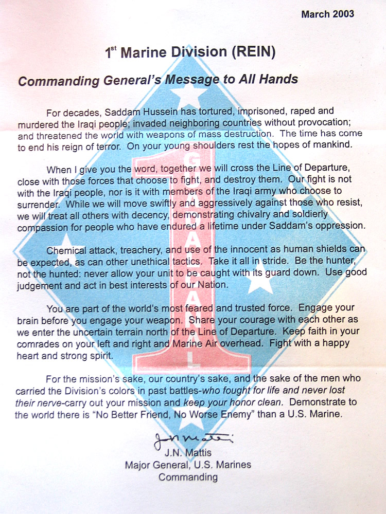 Copy of a 2003 letter written by MajGen James Mattis and distributed to every member of the 1st Marine Division a day before the beginning of the March 2003 invasion of Iraq. March 2003 1st Marine Division Commanding General’s Message to All Hands For decades, Saddam Hussein has tortured, imprisoned, raped and murdered the Iraqi people; invaded neighboring countries without provocation; and threatened the world with weapons of mass destruction. The time has come to end his reign of terror. On your young shoulders rest the hopes of mankind. When I give you the word, together we will cross the Line of Departure, close with those forces that choose to fight, and destroy them. Our fight is not with the Iraqi people, nor is it with members of the Iraqi army who choose to surrender. While we will move swiftly and aggressively against those who resist, we will treat all others with decency, demonstrating chivalry and soldierly compassion for people who have endured a lifetime under Saddam’s oppression. Chemical attack, treachery, and use of the innocent as human shields can be expected, as can other unethical tactics. Take it all in stride. Be the hunter, not the hunted: never allow your unit to be caught with its guard down. Use good judgement [sic] and act in best interests of our Nation. You are part of the world’s most feared and trusted force. Engage your brain before you engage your weapon. Share your courage with each other as we enter the uncertain terrain north of the Line of Departure. Keep faith in your comrades on your left and right and Marine Air overhead. Fight with a happy heart and strong spirit. For the mission’s sake, our country’s sake, and the sake of the men who carried the Division’s colors in the past battles-who fought for life and never lost their nerve-carry out your mission and keep your honor clean. Demonstrate to the world there is "No Better Friend, No Worse Enemy" than a U.S. Marine. J.N. Mattis Major General, U.S. Marines Commanding